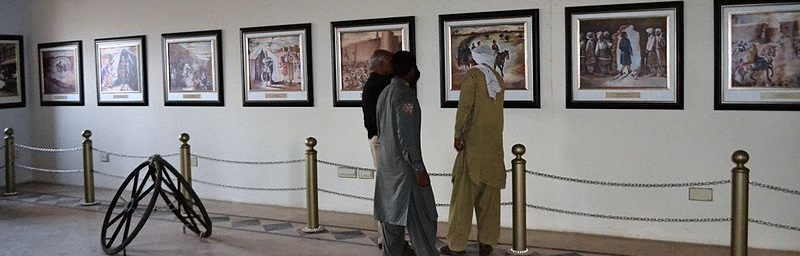 MasterArt21 Art Exhibition